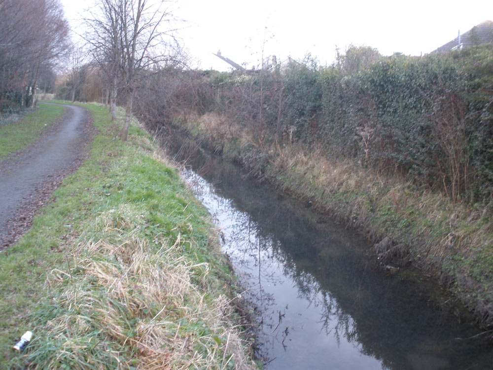 View of the River Poddle, Dublin, where it forms the border between the townlands of Templeogue (left bank, or south) and Whitehall (right bank, or north). The river flows northeast towards the camera (which points southwest) and is about to cross under Templeville Road which is out of sight, just a few metres behind the camera. See also River-Poddle-2010-02-19a.jpg and River-Poddle-2010-02-19b.jpg.